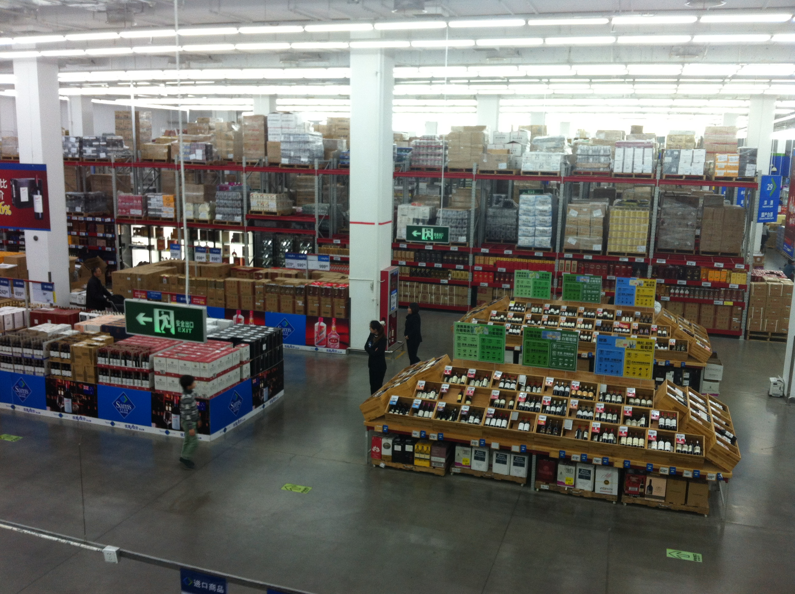 Sam's Club in Suzhou中文（中国大陆）: 山姆会员商店（苏州店）的货架